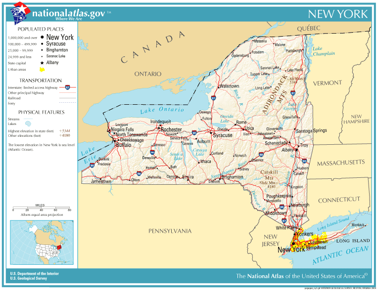 This map shows the roads of the state of New York.